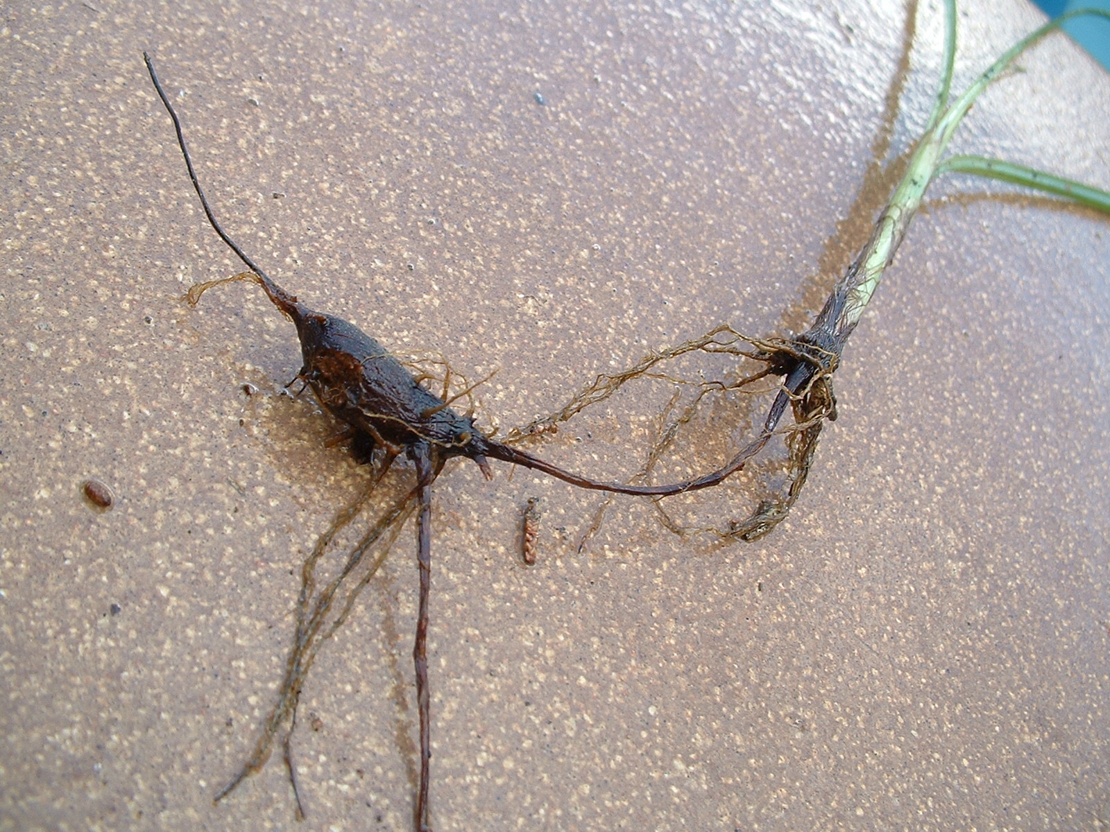 Cyperus rotundus (nutgrass, or purple nut-sedge) tuber (its "nut"). Photographed by myself.